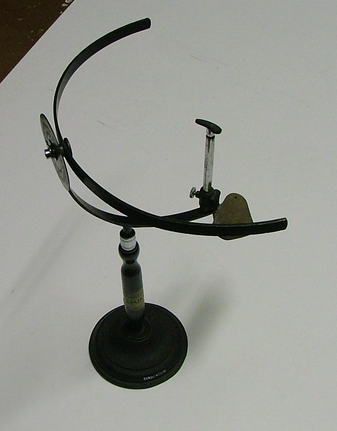 Perimeter vision tester (hand-held with chin rest) and (2) set of color rods, from the University of Dundee Museum Collections.